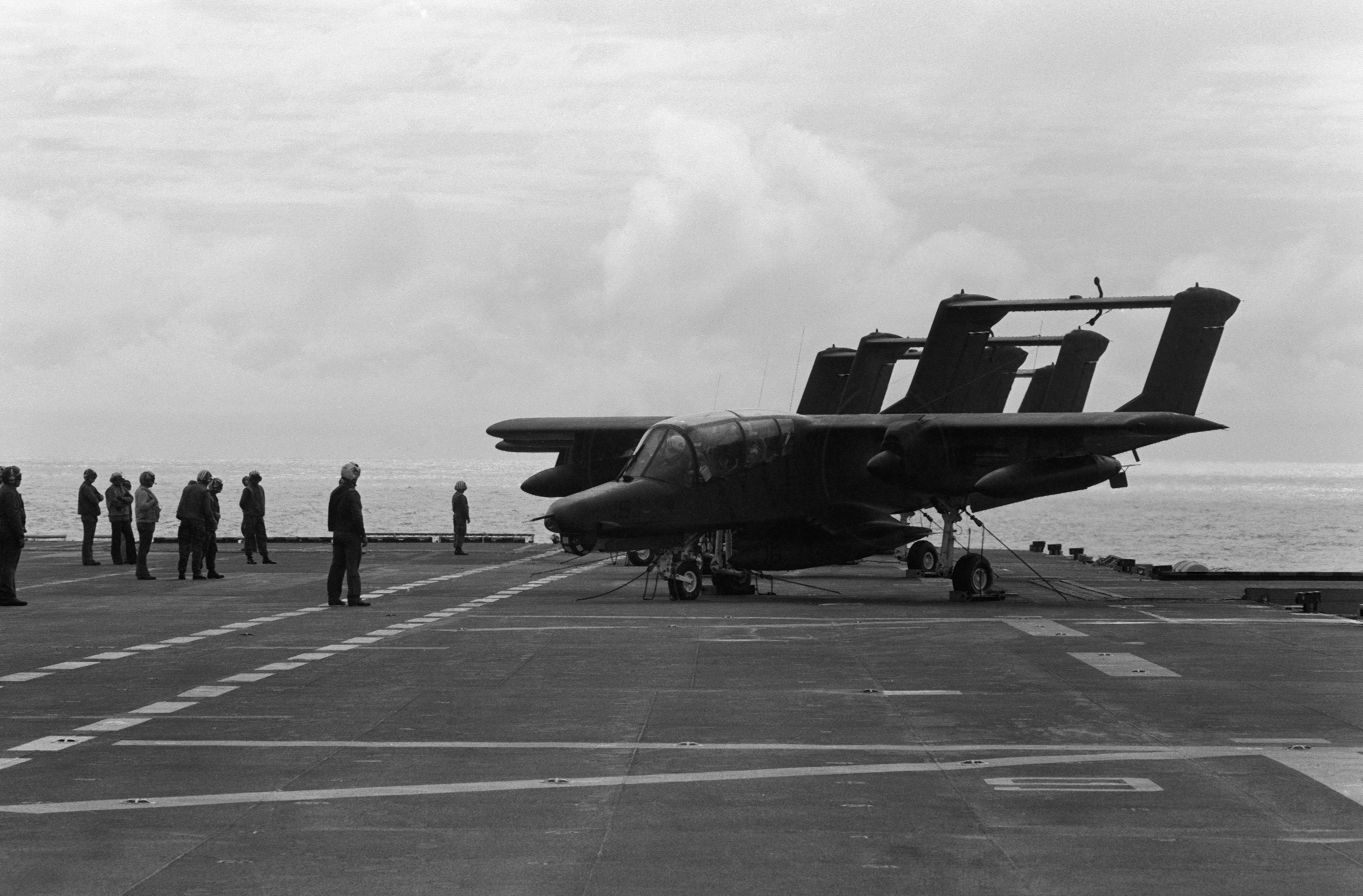 A North American Rockwell OV-10A Bronco of U.S. Marine Corps observation squadron VMO-1 parked on the flight deck of the U.S. amphibious assault ship USS Nassau (LHA-4) in 1983.